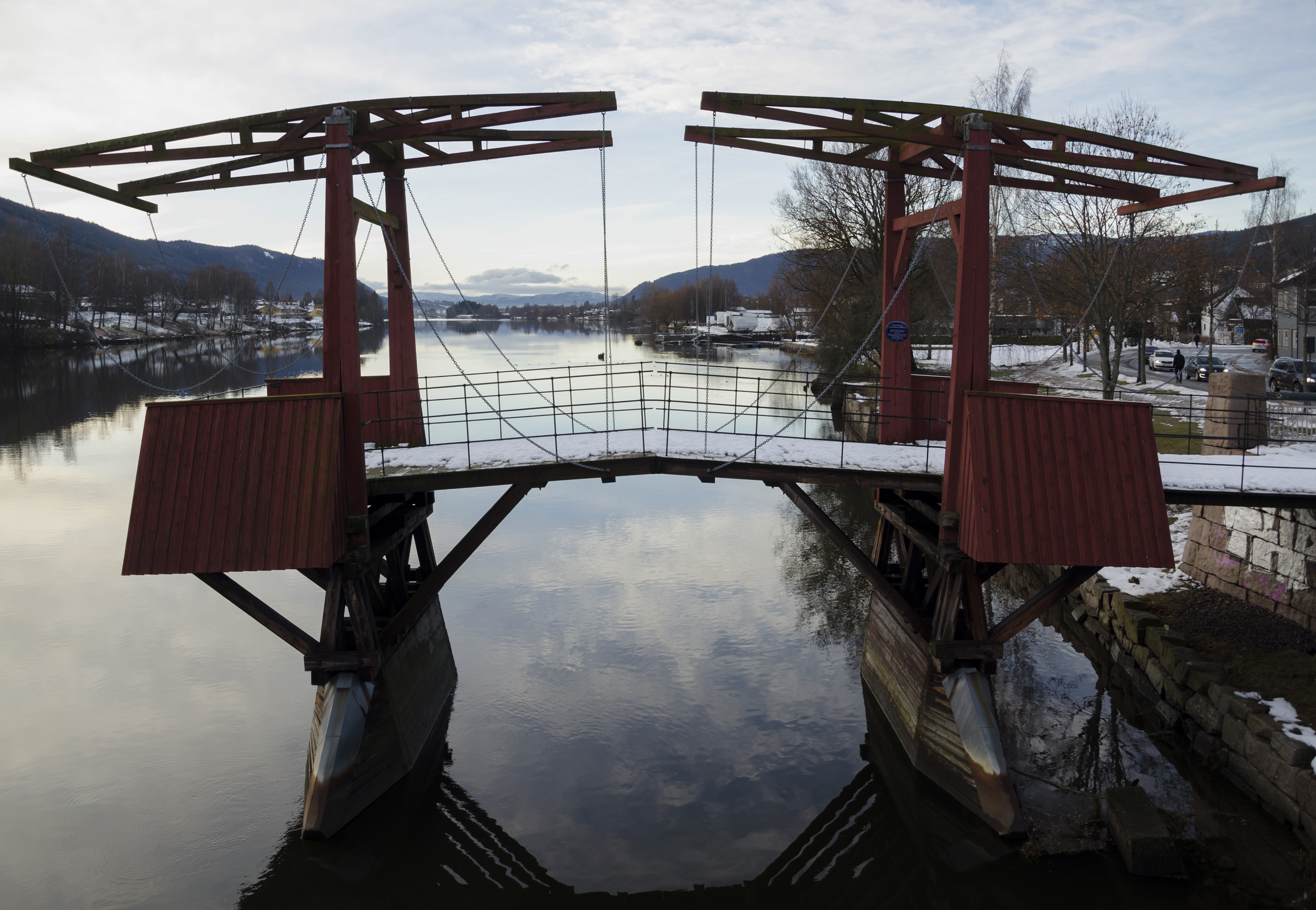 Part of the Landfalløya (Landfall island) bridge in Drammen, designed by engineer Heyerdahl and constructed by Gundersen in 1867.